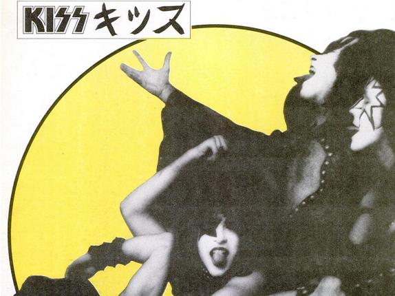 "Hotter than Hell"'s ad in Billboard magazine.